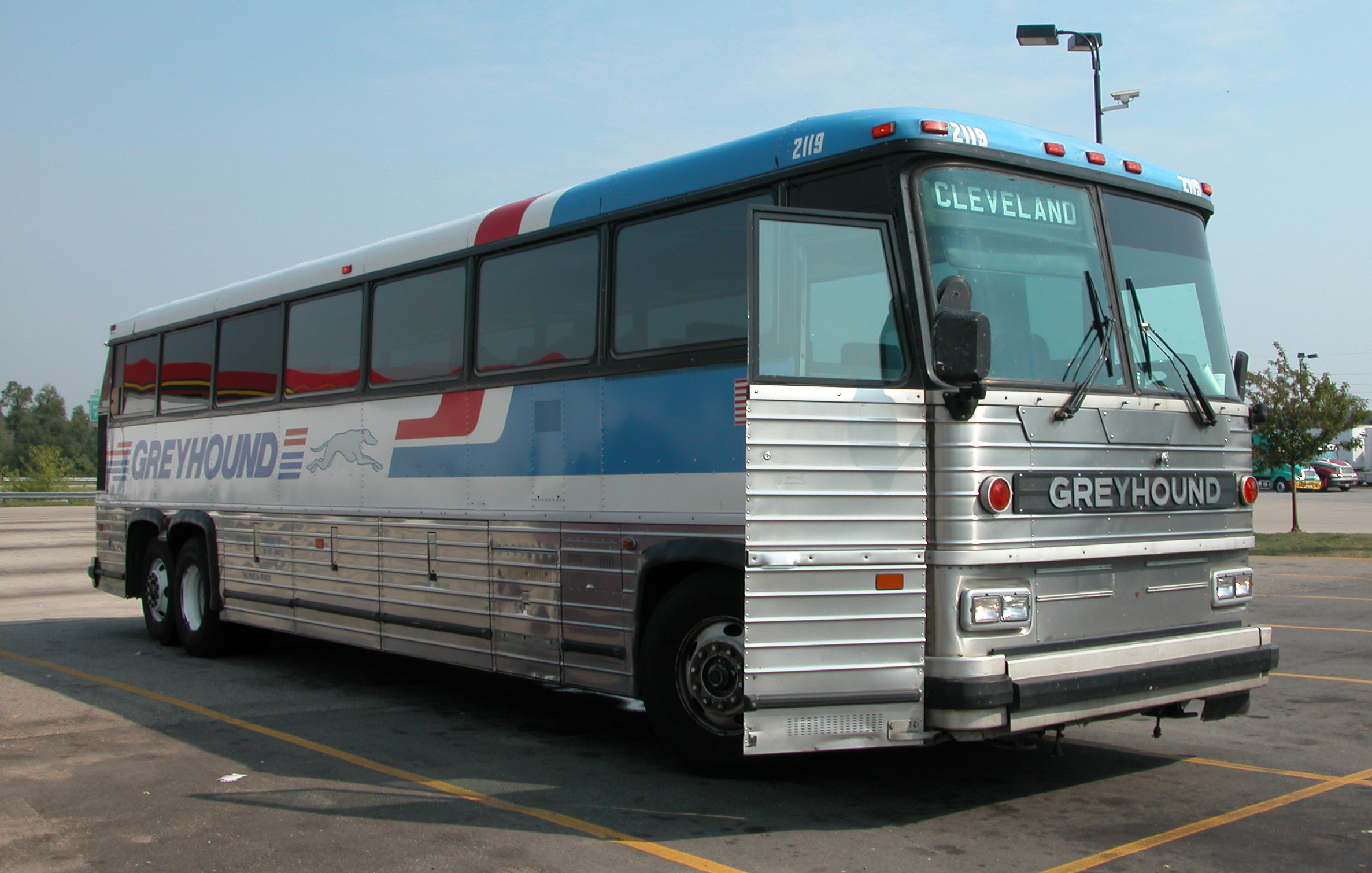 Greyhound MCI MC-12 passanger bus #2119 stopped in Fremont, Indiana and headed to Cleveland, Ohio.